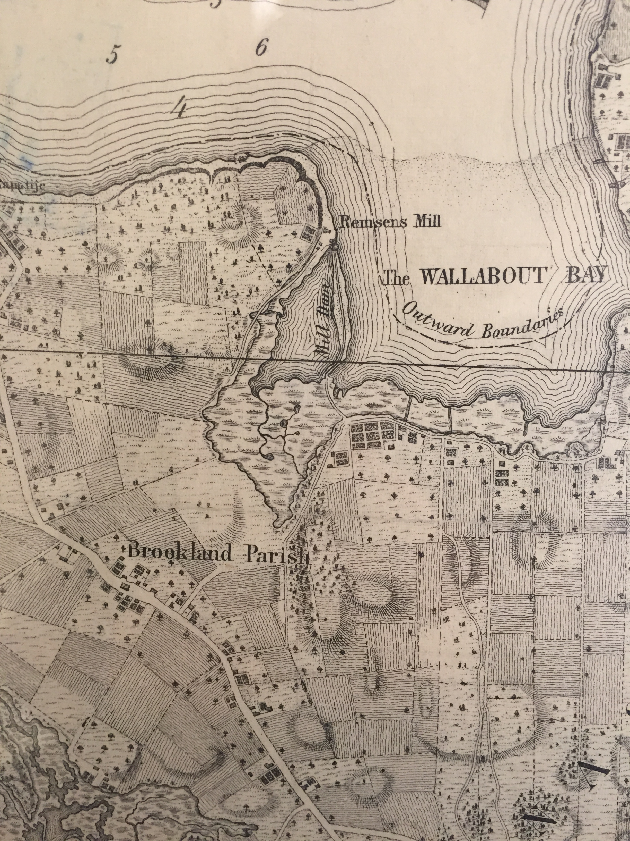 Historical map from 1767 was taken from New York Public Library Historical Maps section. Represent the area of east river side of Brooklyn and Wallabout Bay